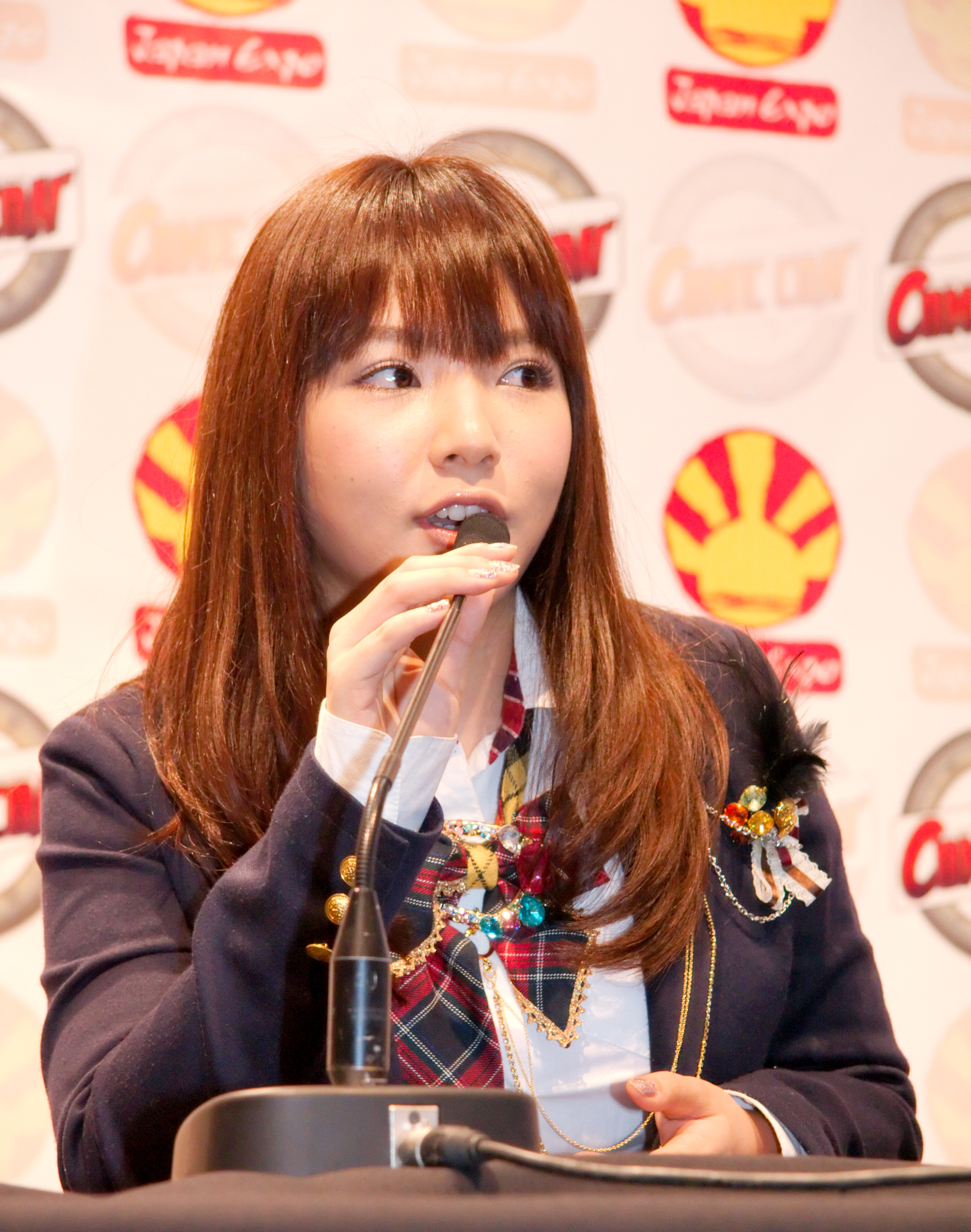 Kayo Noro of AKB48 during lecture at Japan Expo 2009 (Paris, France).